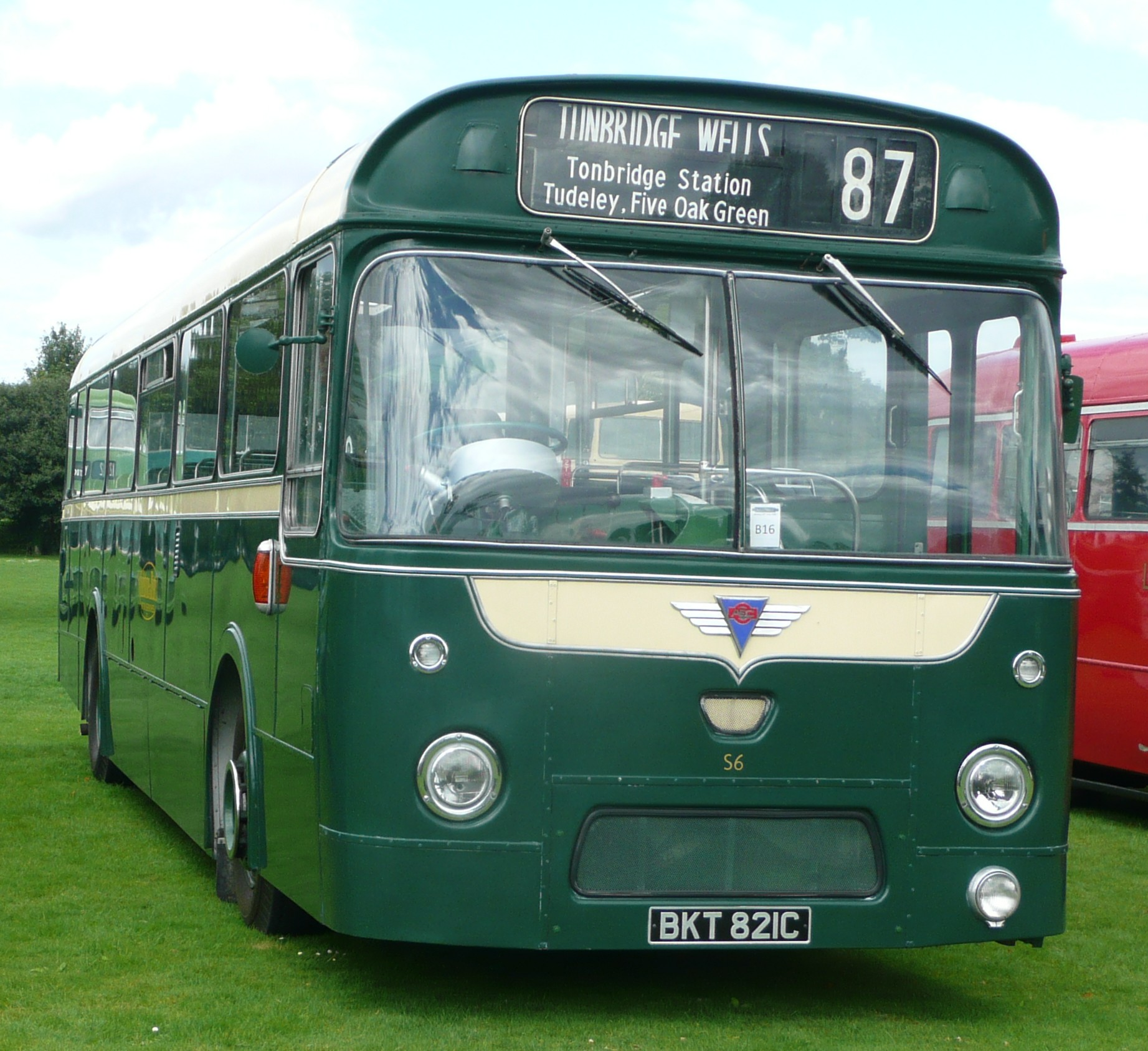 Preserved Maidstone & District S6 (BKT 821C), an AEC Reliance/Marshall, at the 2008 Alton bus rally at Anstey Park.